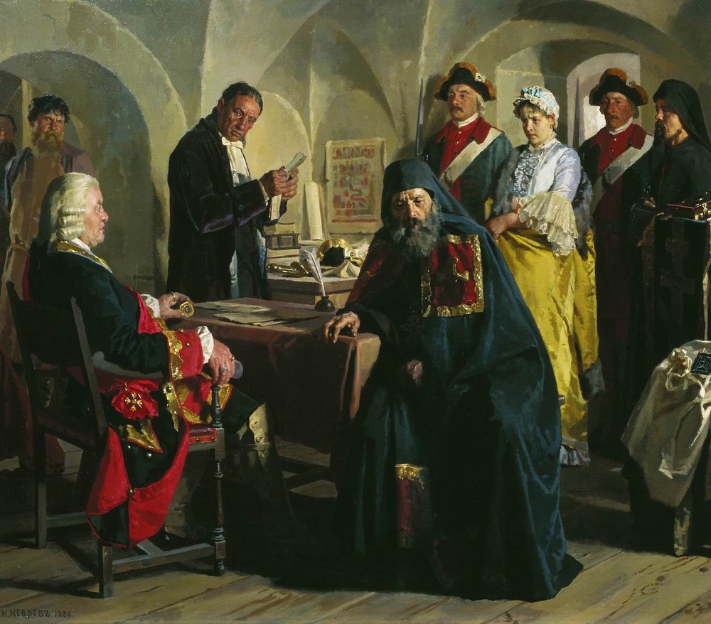 Nikolai Nevrev (1830-1904) Princess Praskovya Yusupova before becoming a nun (on the wall, in the background, is an icon of the Last Judgement